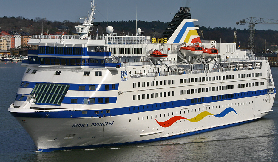 M/S Birka Princess (later M/S Sea Diamond) arrives in Stockholm on her glory days. M/S Sea Diamond sank and two lives were lost. On Birka days the ship was used on TV-series "Rederiet" as M/S Freja.